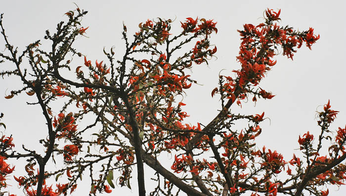 Dhak Butea monosperma in Kolkata, West Bengal, India.